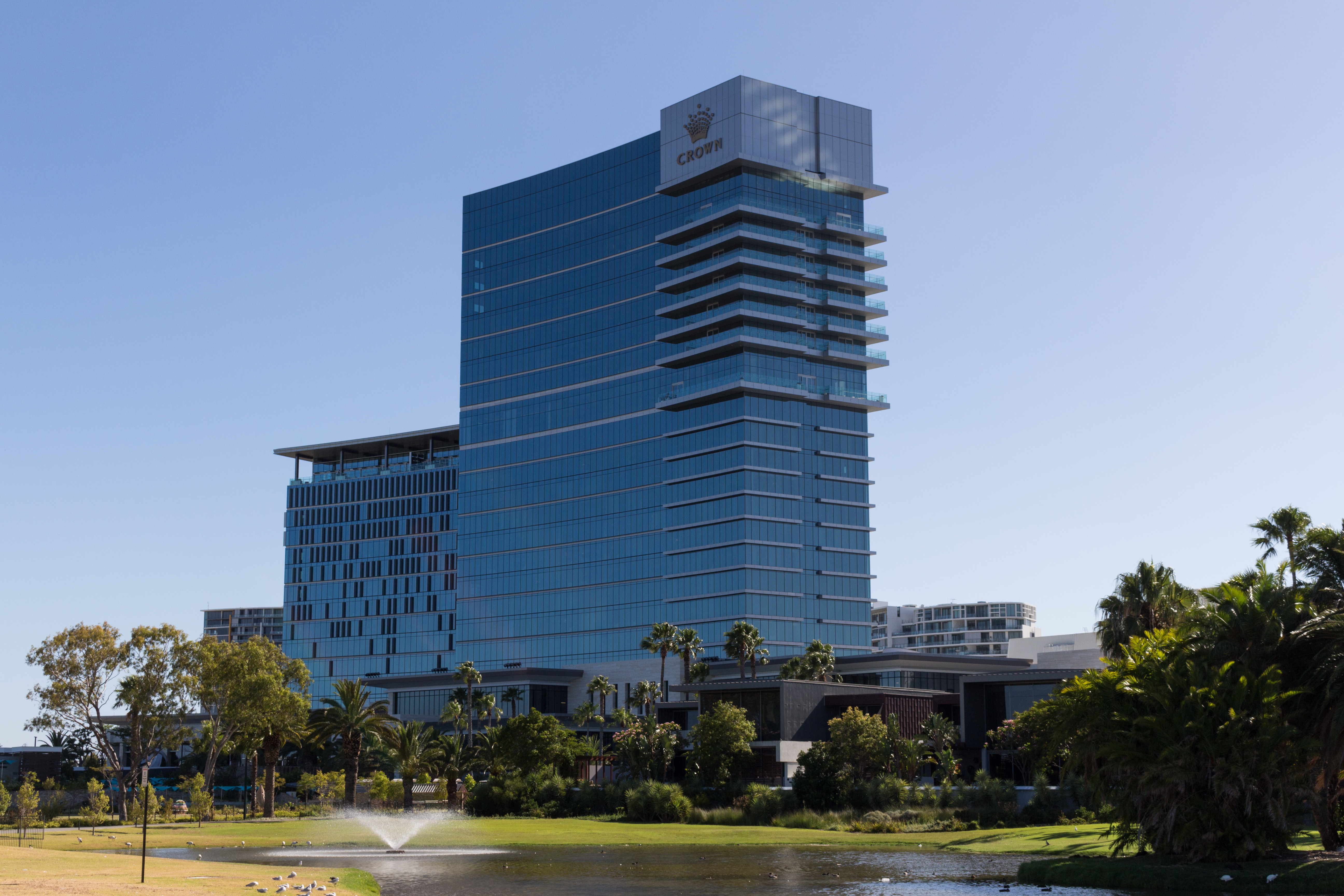 Crown Towers Perth with Crown Metropol Mansions in foreground, photographed from Burswood Park.